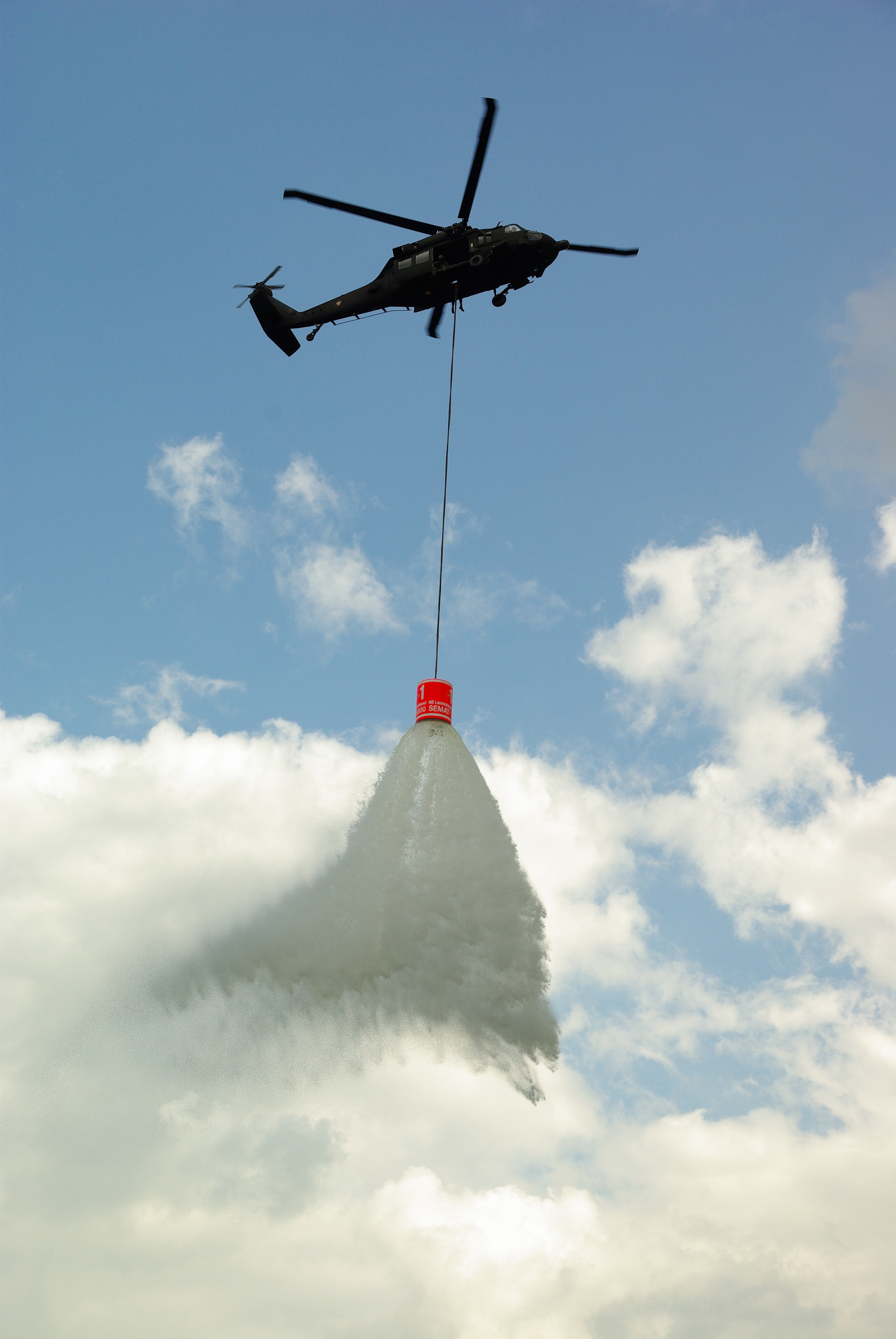 Sikorsky S-70 Black Hawk of the Austrian Armed Forces drops water from a SEMAT "F" 3000 bucket. (Demonstration at the "Day of the emergency organisations 2008" in Tulln, Austria.)